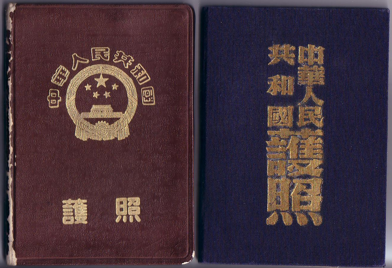 First two versions of PRC passports since 1949. Personal scan by Erlkonig.